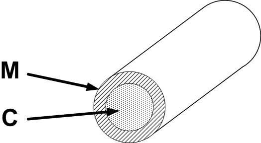 Gurney equations explosives engineering diagram of cylindrical configuration. Cylinder of explosives with mass C wrapped by hollow flyer shell of mass M.